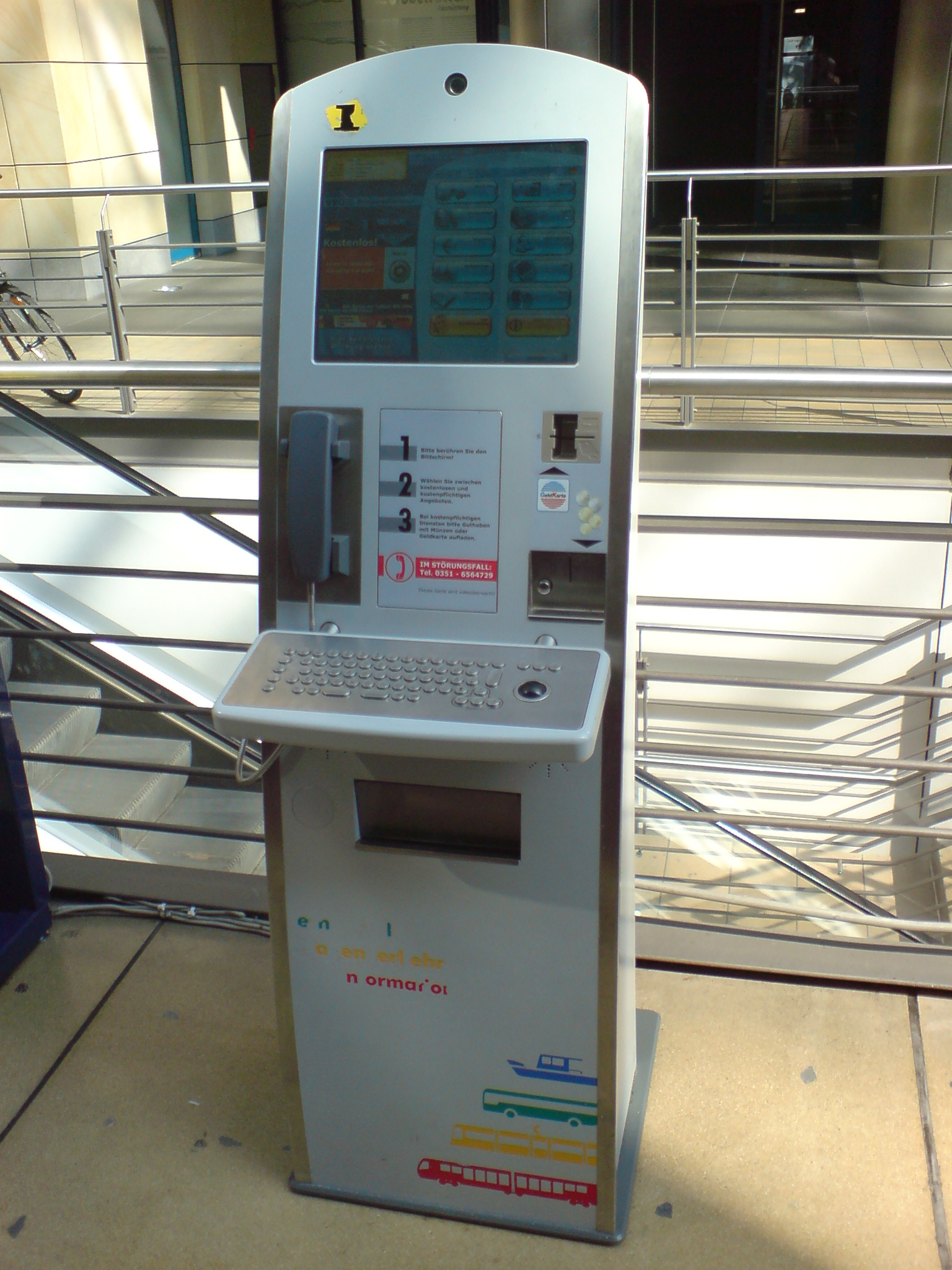 VVO Multimedia-Terminal photographed by Mike Krüger, 2006, in Dresden WTC (Germany)